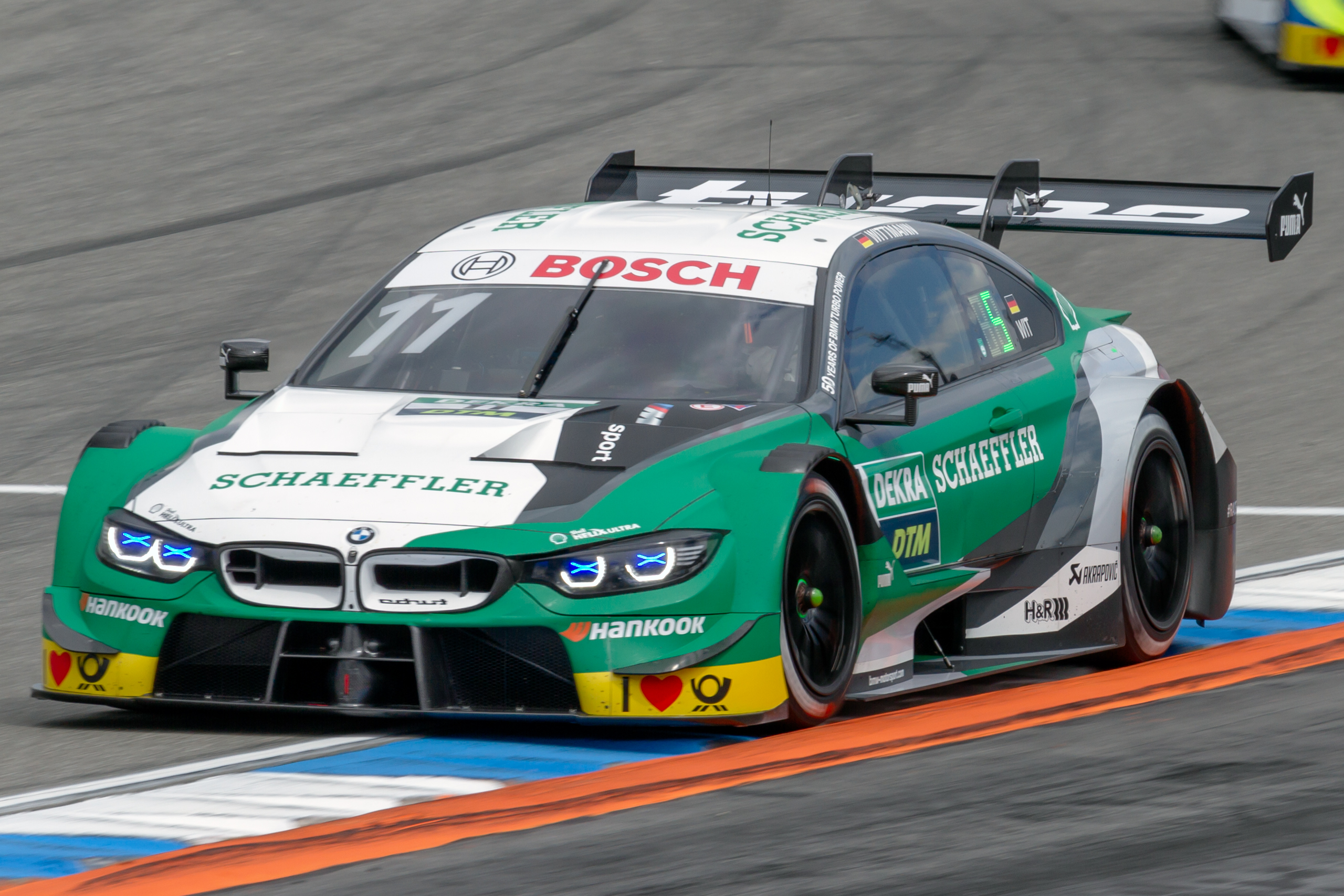 2019 DTM Hockenheimring (May): BMW M4 Turbo DTM of Marco Wittmann